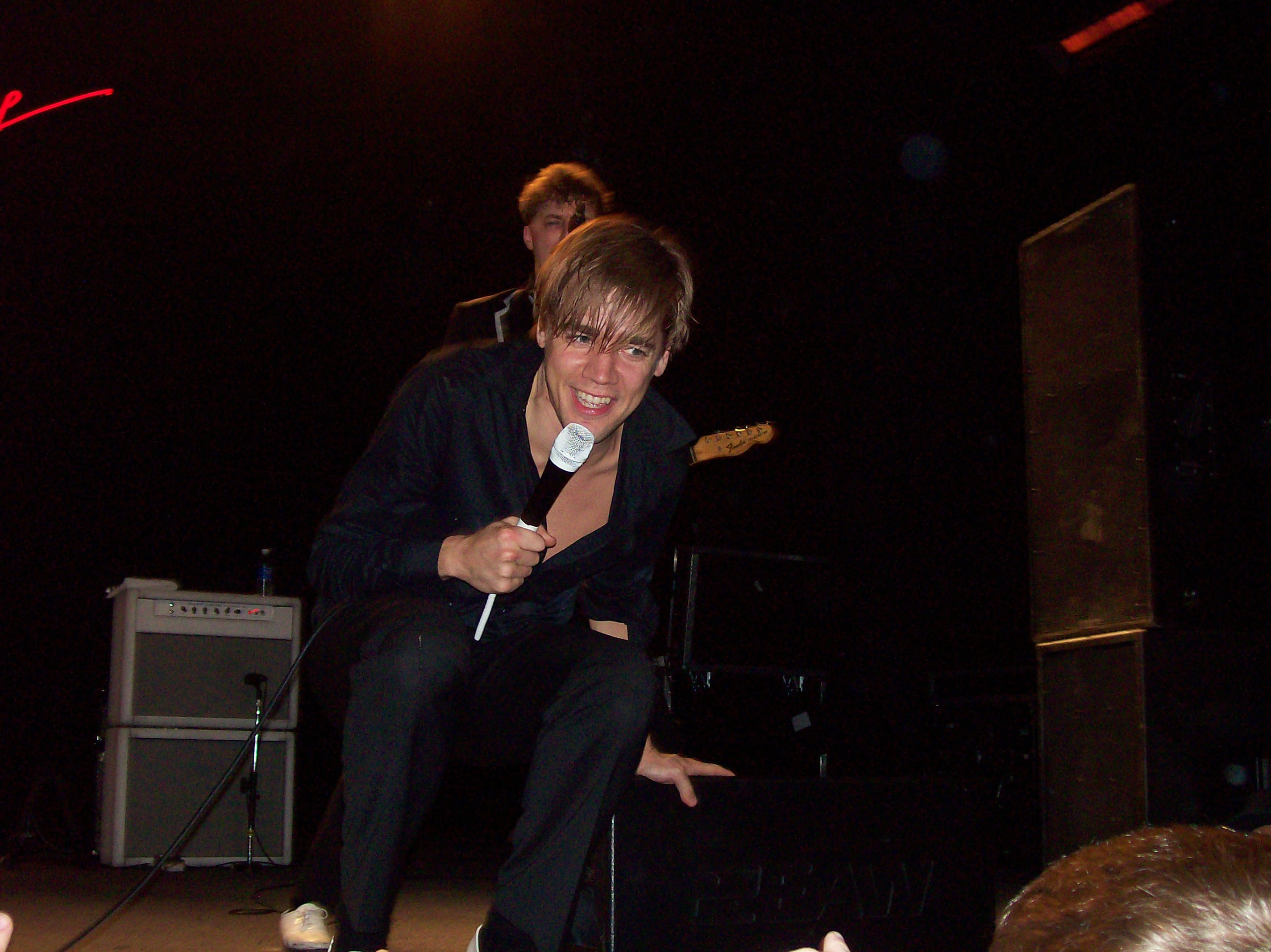 Pelle Almqvist performing with The Hives at the Agora Theater in Cleveland, Ohio